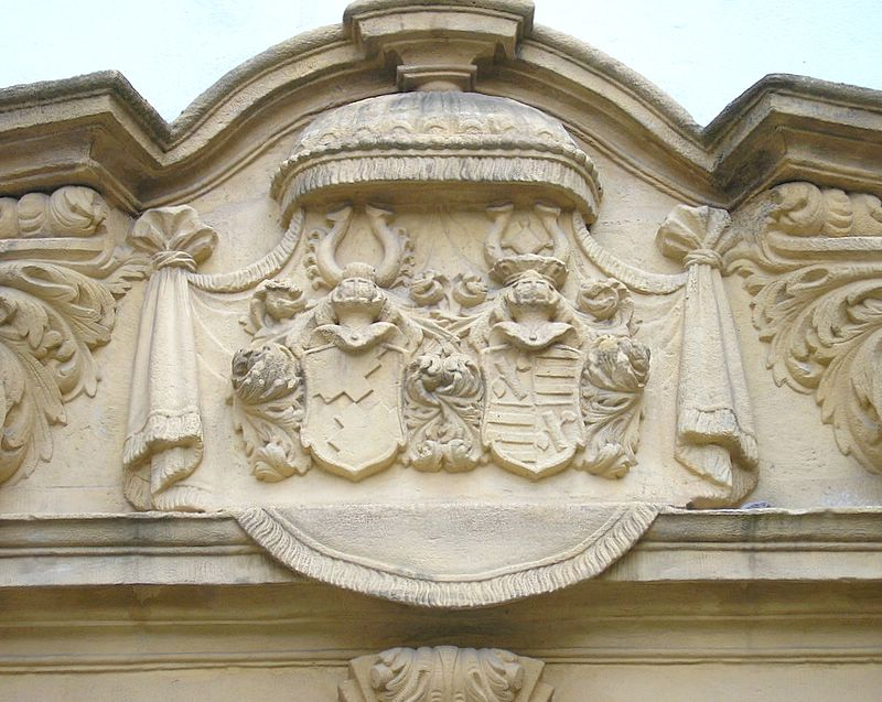 Heilgersdorf castle (Landkreis Coburg, Upper Franconia, Germany). The main portal. Coat of arms Lichtenstein-Veltheim.